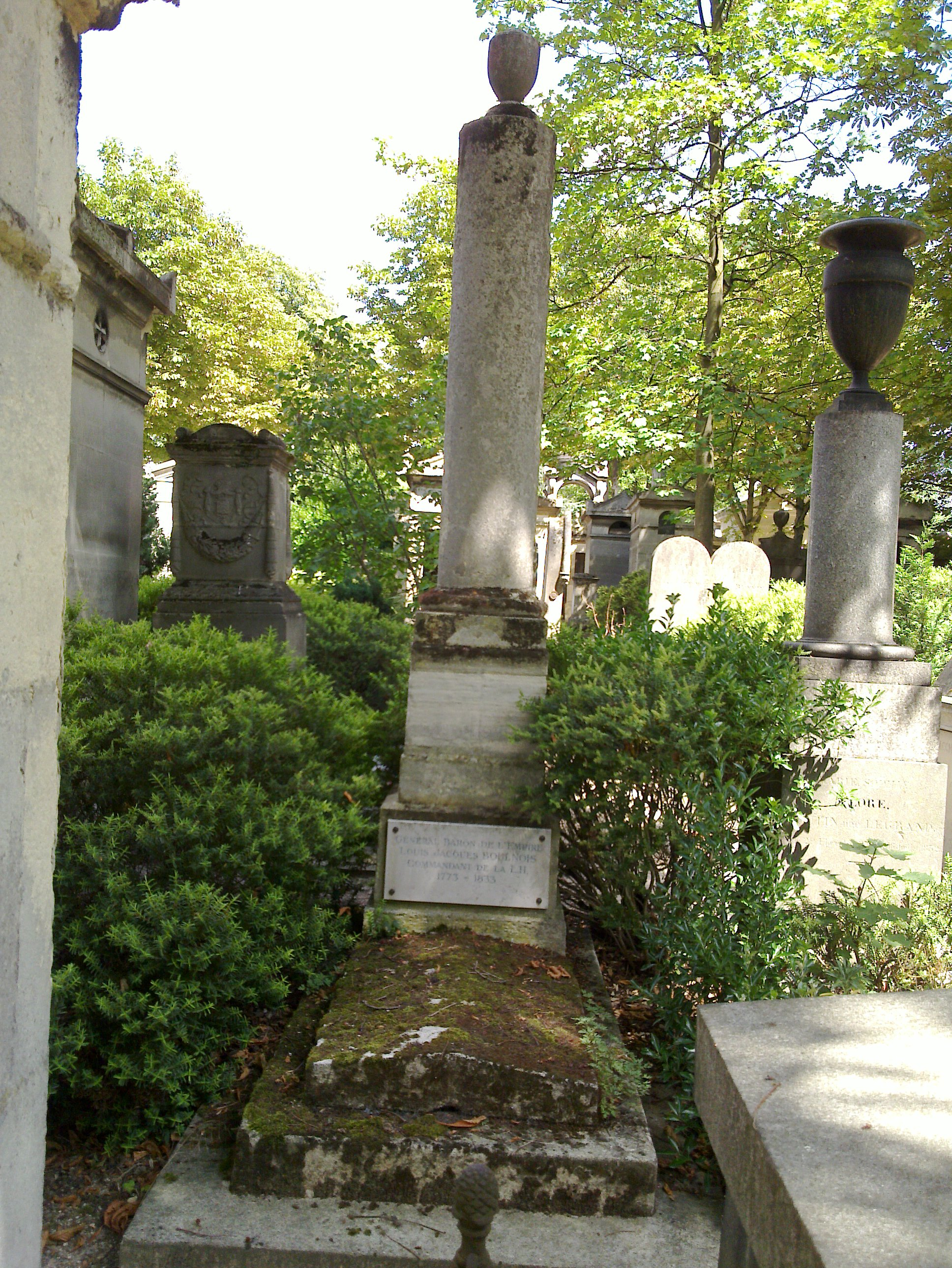 Louis Jacques Boulnois' grave, Père-Lachaise, Paris